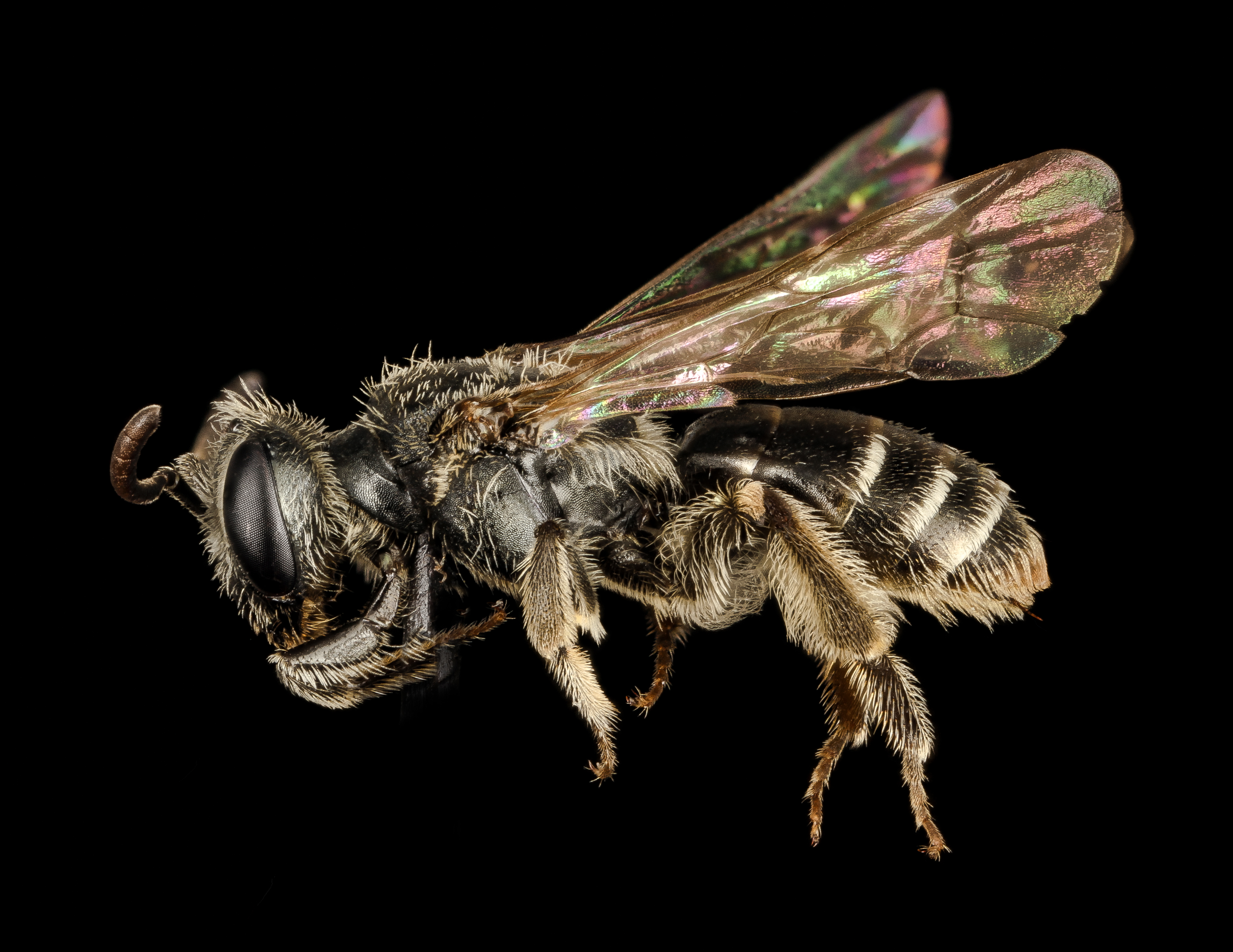 20:48, 29 May 2015 (UTC)20:48, 29 May 2015 (UTC) 0 20:48, 29 May 2015 (UTC)20:48, 29 May 2015 (UTC) All photographs are public domain, feel free to download and use as you wish. Photography Information: Canon Mark II 5D, Zerene Stacker, Stackshot Sled, 200mm Pentax-m with Nikon 10X infinity microscope objective lens mounted on front , Twin Macro Flash in Styrofoam Cooler, F5.6, ISO 100, Shutter Speed 200 Love for Other Things It’s easy to love a deer But try to care about bugs and scrawny trees Love the puddle of lukewarm water From last week’s rain. Leave the mountains alone for now. Also the clear lakes surrounded by pines. People are lined up to admire them. Get close to the things that slide away in the dark. Be grateful even for the boredom That sometimes seems to involve the whole world. Think of the frost That will crack our bones eventually. - Tom Hennen You can also follow us on Instagram account USGSBIML Want some Useful Links to the Techniques We Use? Well now here you go Citizen: Basic USGSBIML set up: USGSBIML Photoshopping Technique: Note that we now have added using the burn tool at 50% opacity set to shadows to clean up the halos that bleed into the black background from "hot" color sections of the picture. PDF of Basic USGSBIML Photography Set Up: ftp://ftpext.usgs.gov/pub/er/md/laurel/Droege/How%20to%20Take%20MacroPhotographs%20of%20Insects%20BIML%20Lab2.pdf Google Hangout Demonstration of Techniques: or Excellent Technical Form on Stacking: Contact information: Sam Droege 301 497 5840